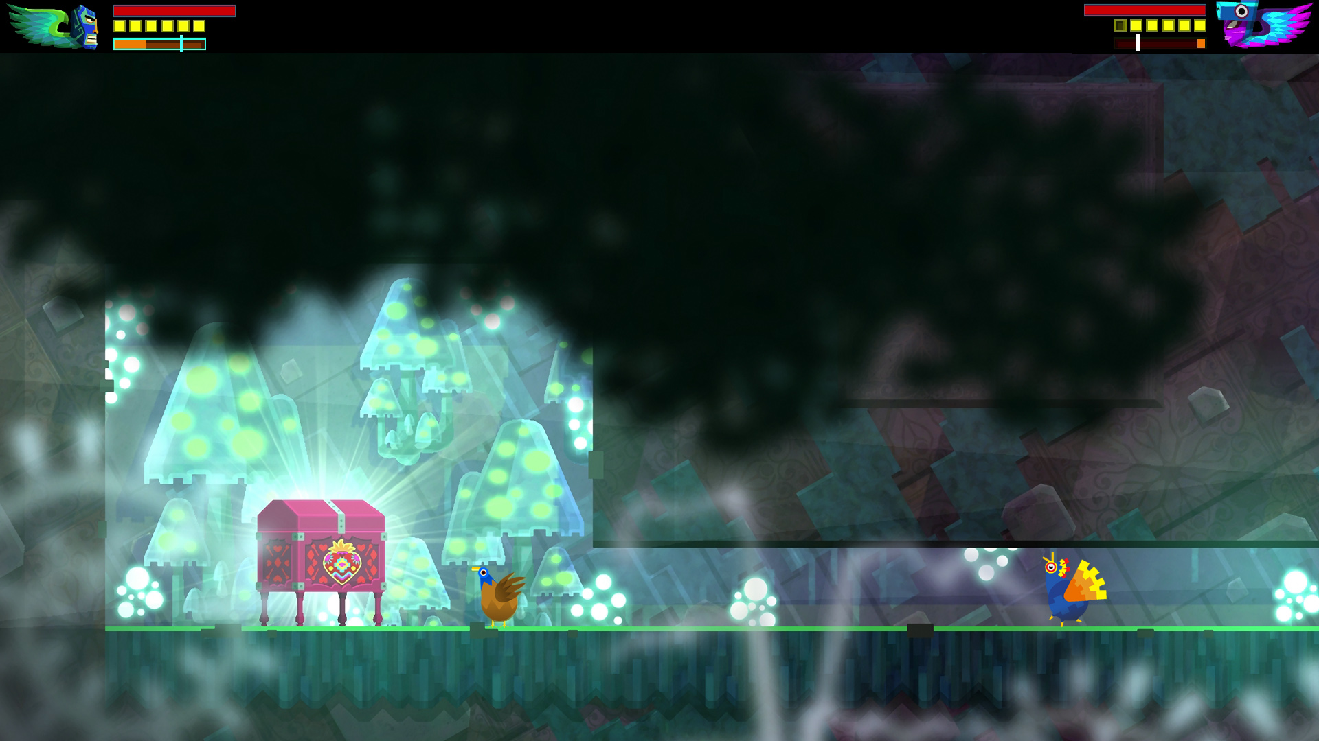 Screenshot from Guacamelee!